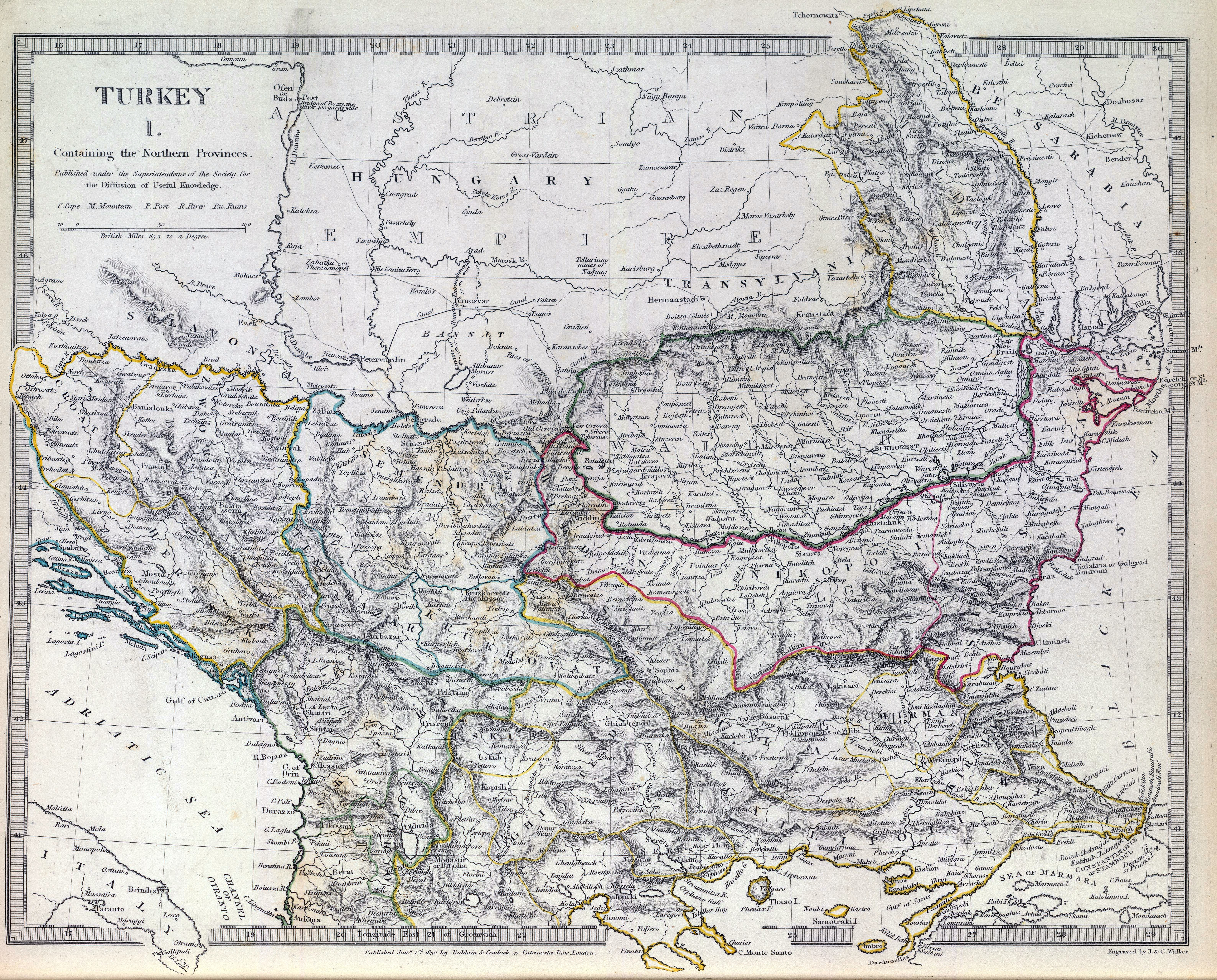 The northern provinces of European Turkey (Ottoman Empire) in 1829. Published under the superintendence of the Society for the Diffusion of Useful Knowledge.